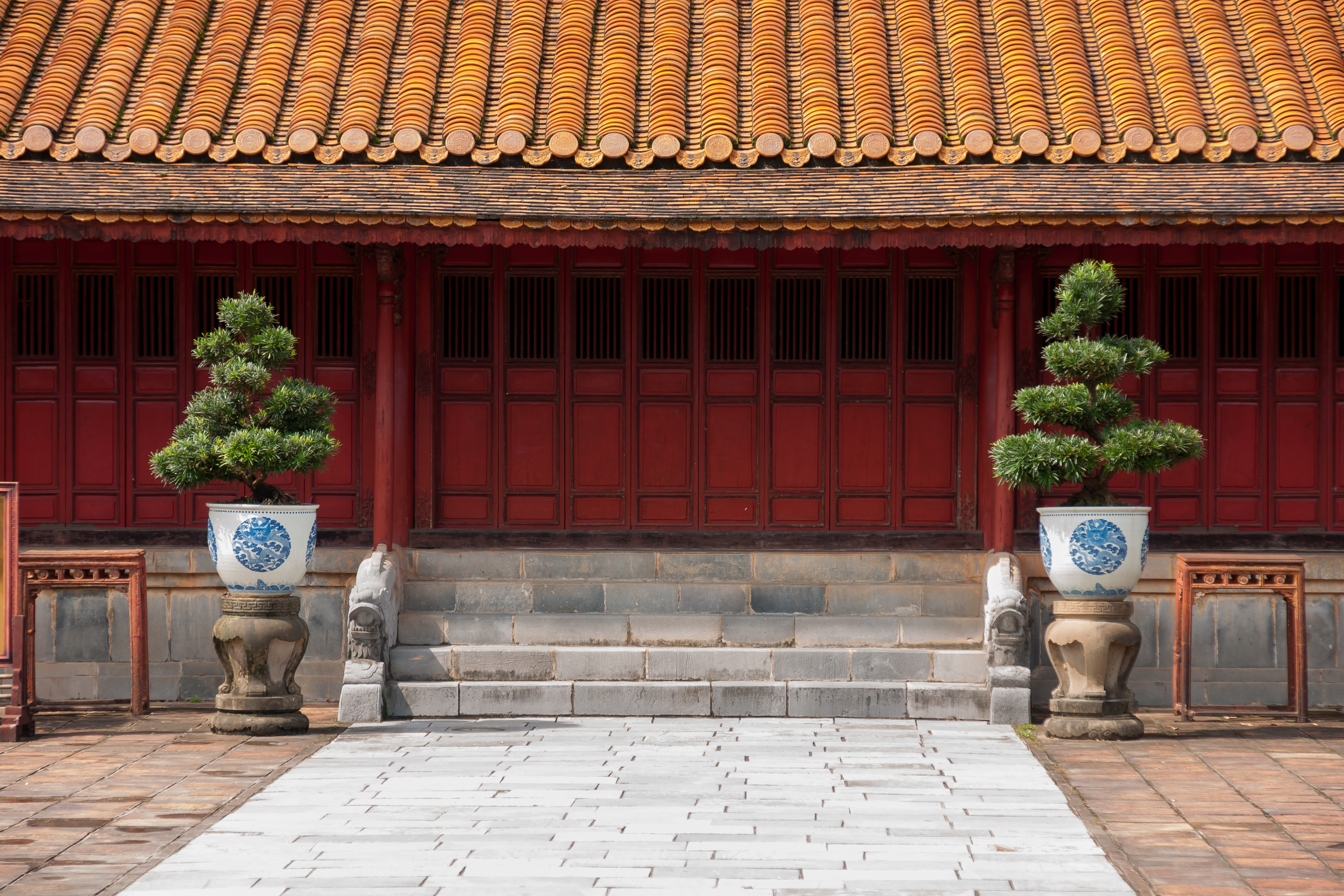 Hue, Vietnam: Điện Sùng Ân, on the way to the tomb of the Emperor Minh Mang in Hương Thọ, Huong Tra District, Thừa Thiên-Huế, Vietnam